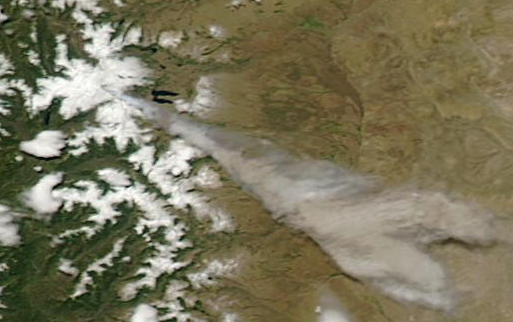 Eruption of Copahue Volcano, Argentina-Chile 12-22-2012